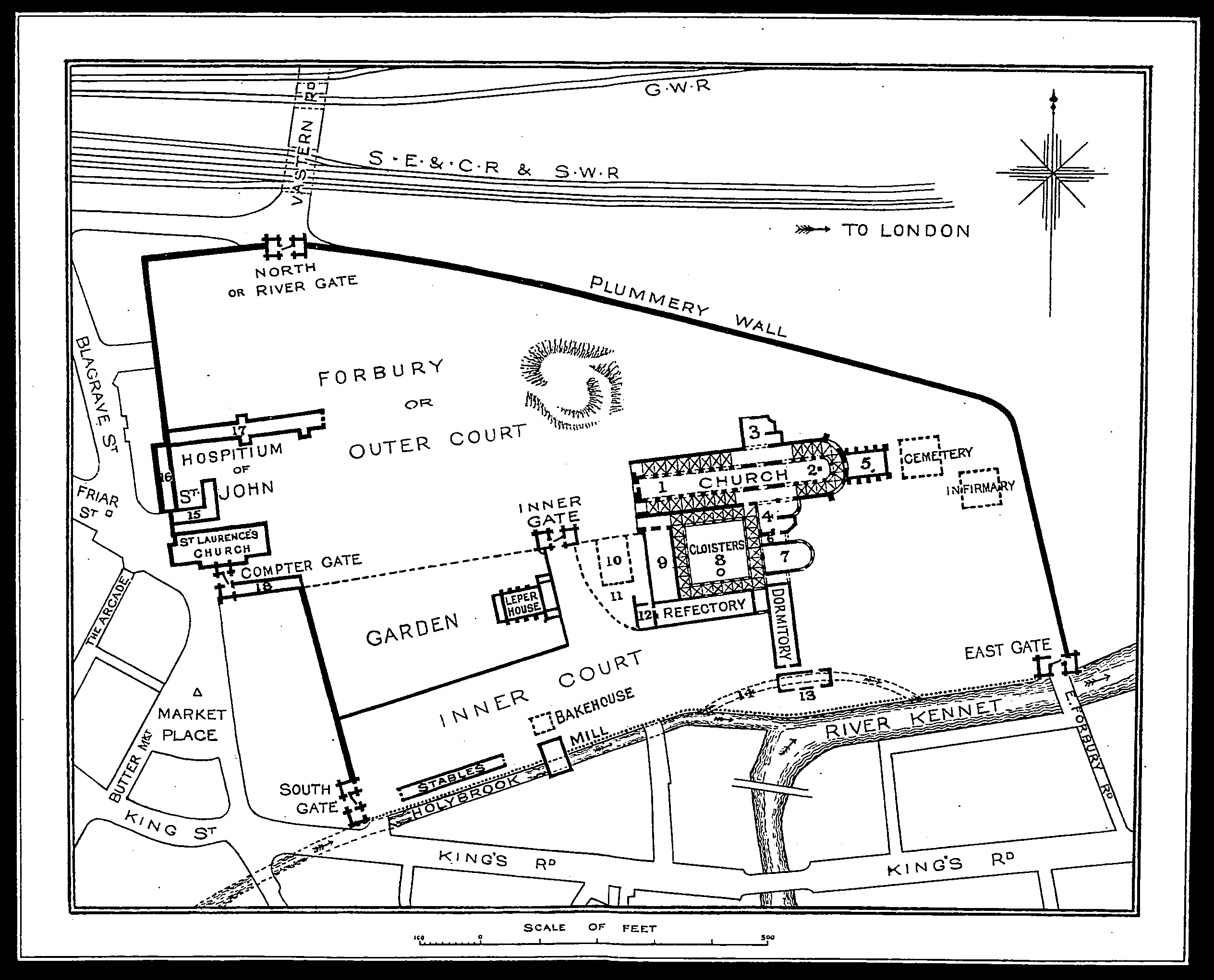 Jamieson B. Hurry's map of Reading Abbey as it would have existed before it demolishing.